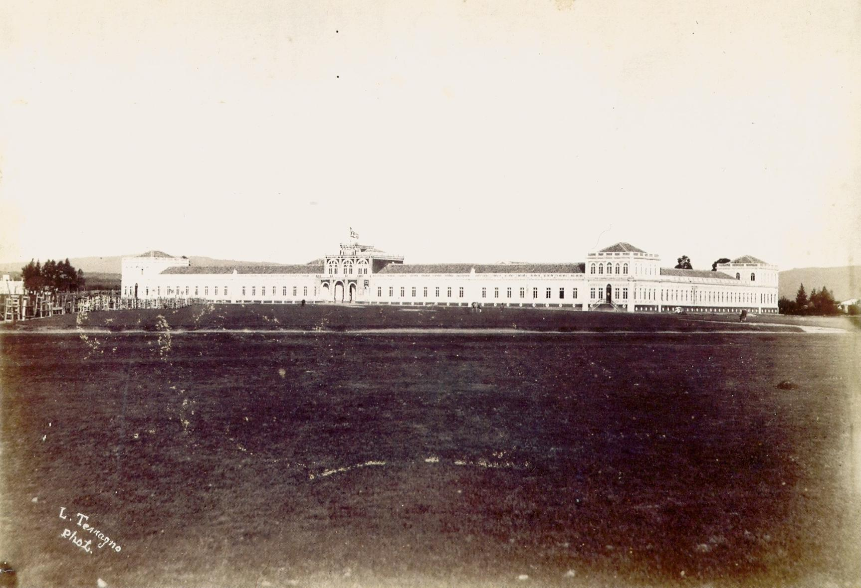 Military College in Porto Alegre, province of Rio Grande do Sul, 1885.